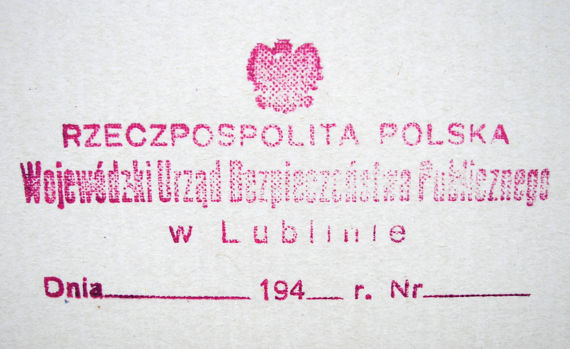 Seal used by Public Security of People's Republic of Poland